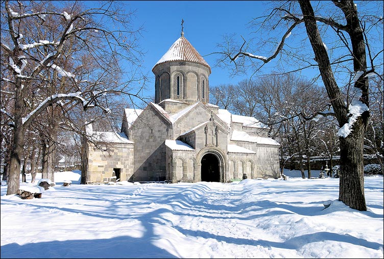 Manglisi Cathedral — a Georgian Orthodox church in Georgia.